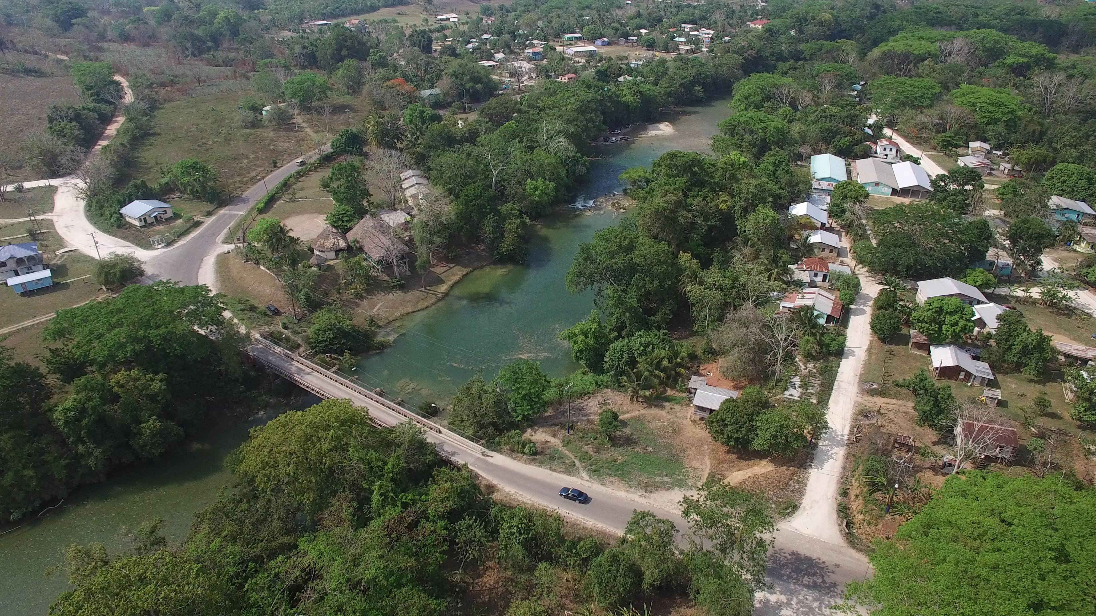 Aerial photograph of Bullet Tree Falls showing the Mopan River